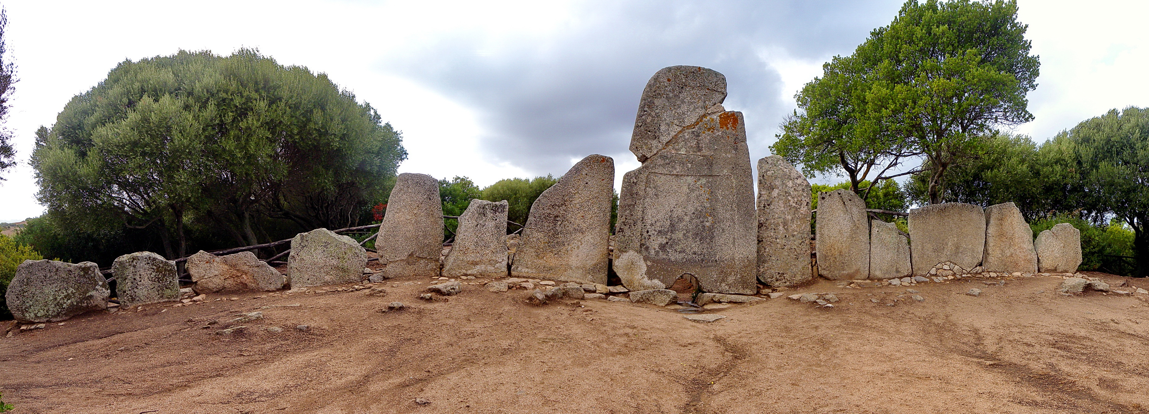 domus de janas in Arzachena-Li Lolghi